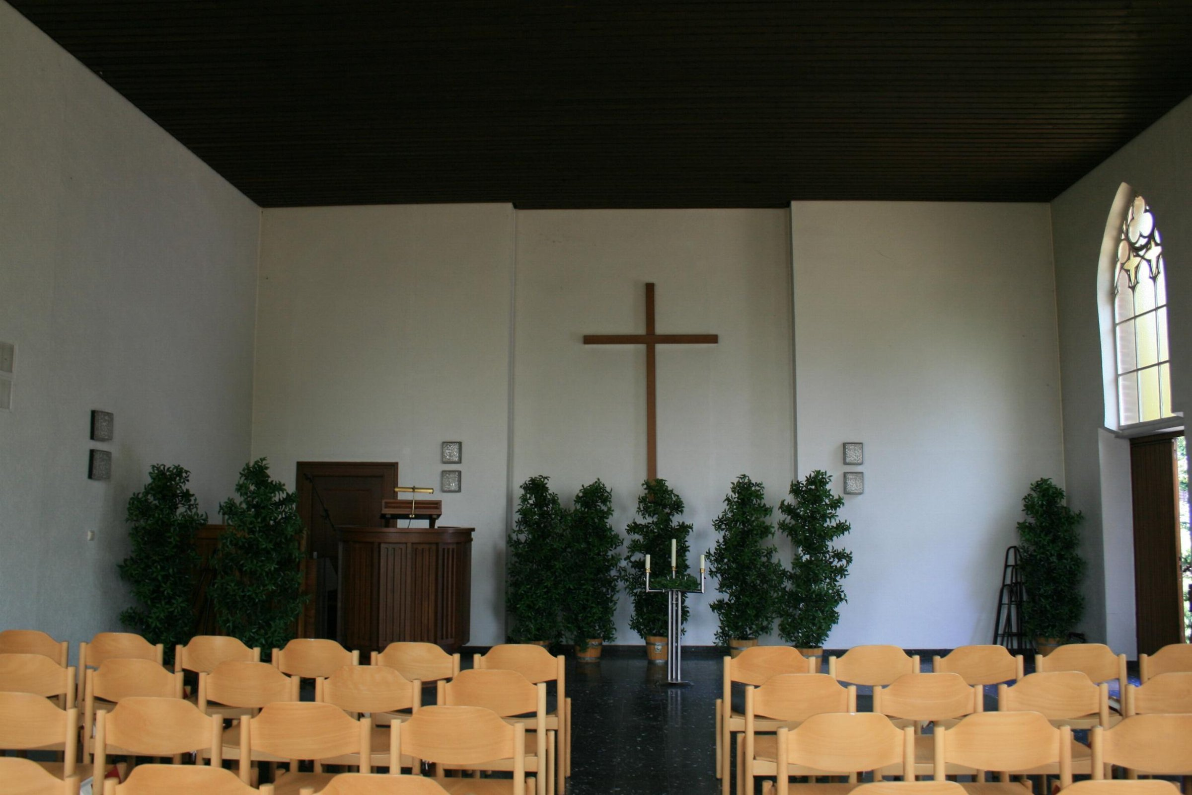 Cultural heritage monument No. K 081 in Mönchengladbach